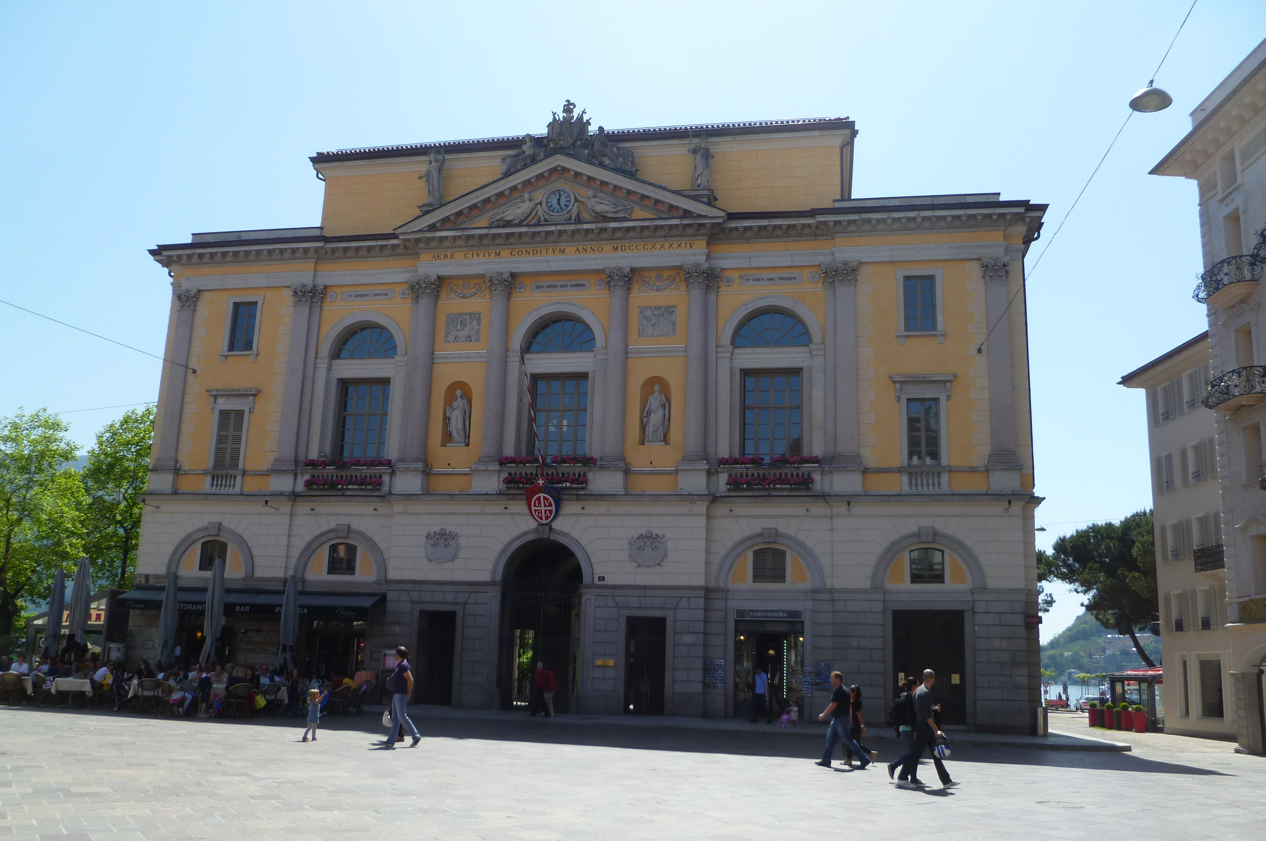 Town hall of Lugano, Switzerland